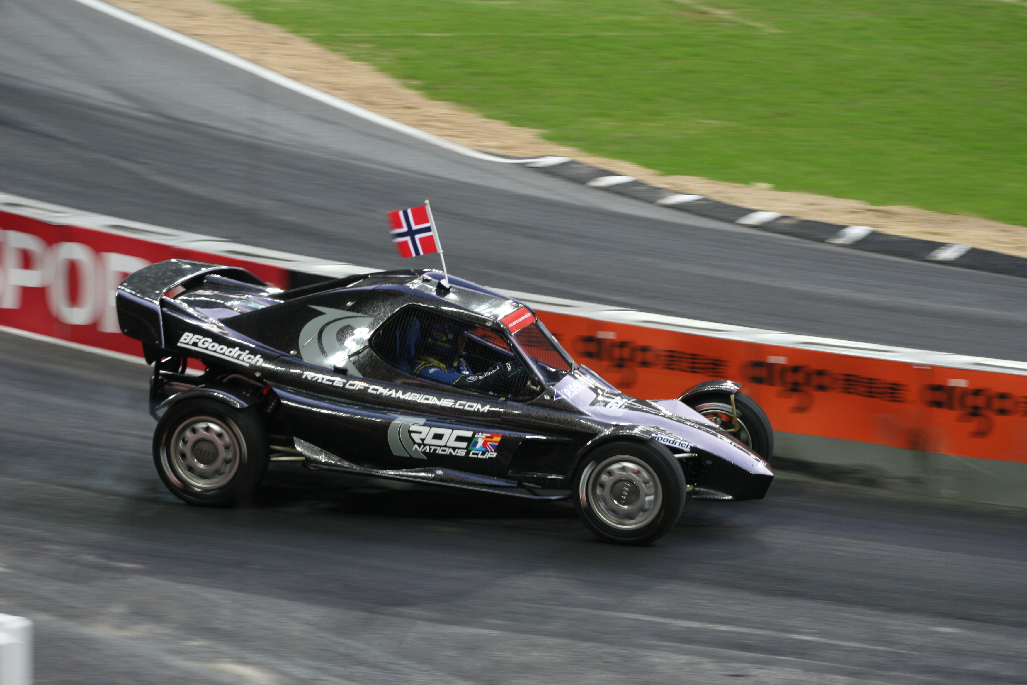 Petter Solberg driving the ROC car at the 2007 Race of Champions at Wembley Stadium.